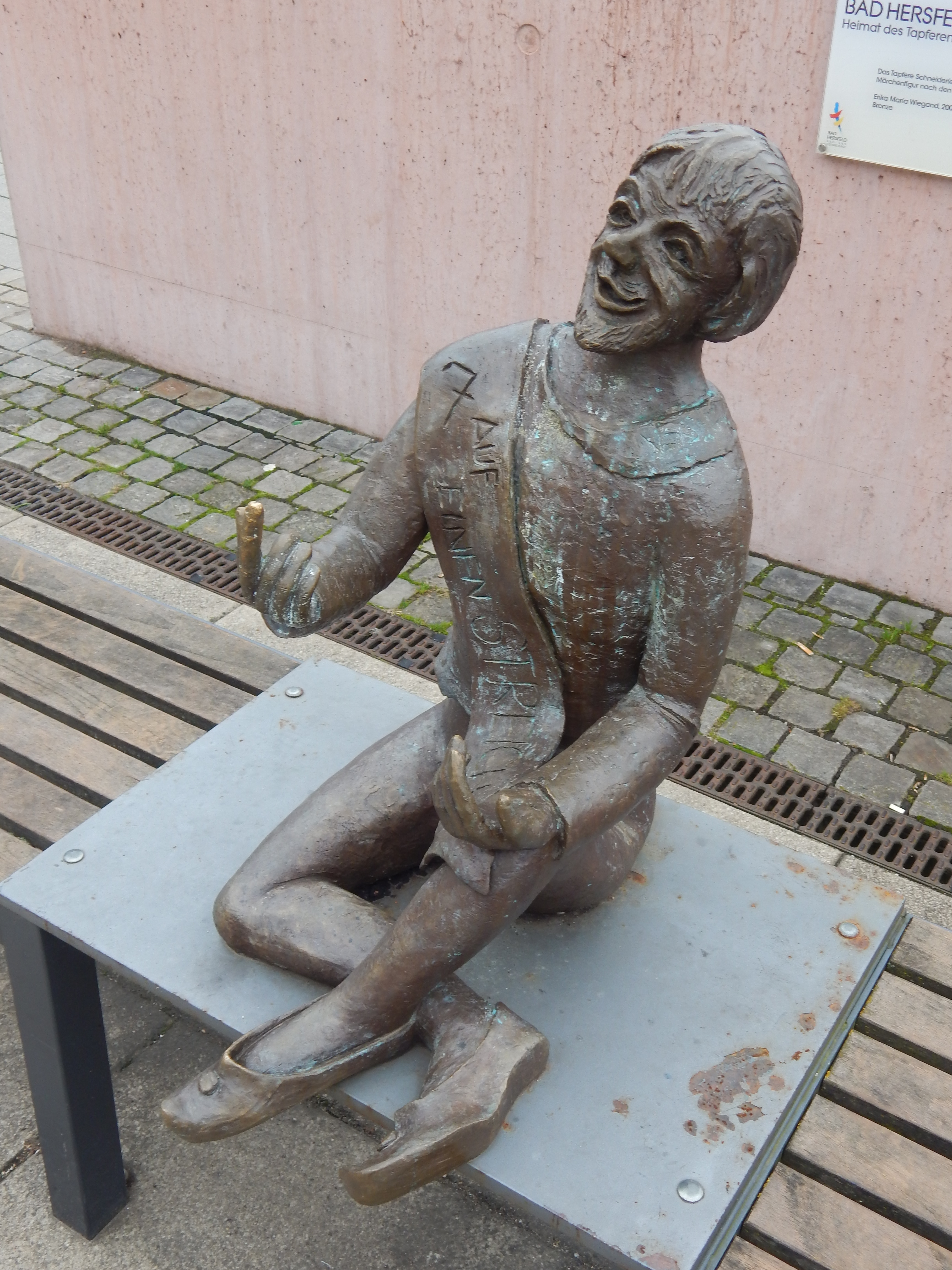 Sculpture "Das tapfere Schneiderlein" by Erika Maria Wiegand, 2006